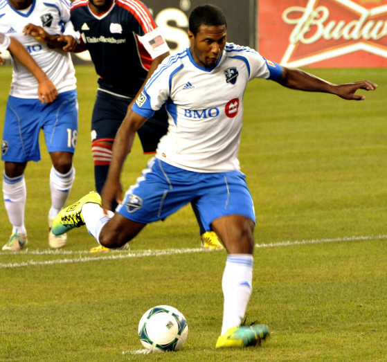 Patrice Bernier of the Montreal Impact converts a penalty kick against New England Revolution during a Major League Soccer (MLS) game played in Foxborough, Massachusetts, on 8 September 2013.